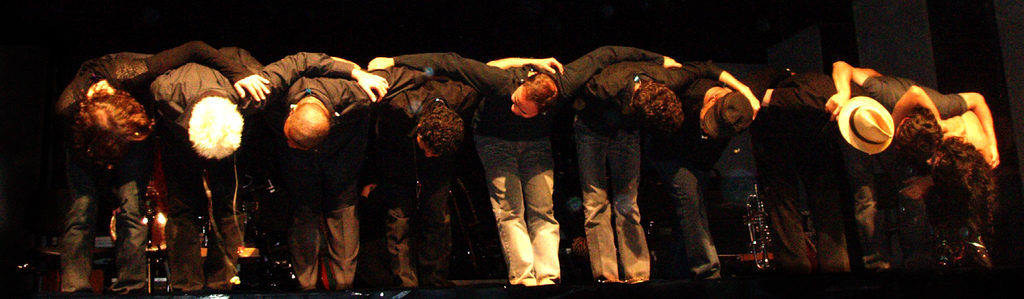 Chevrolet Hall - BH - Brasil - Marisa Monte (14.09.07)